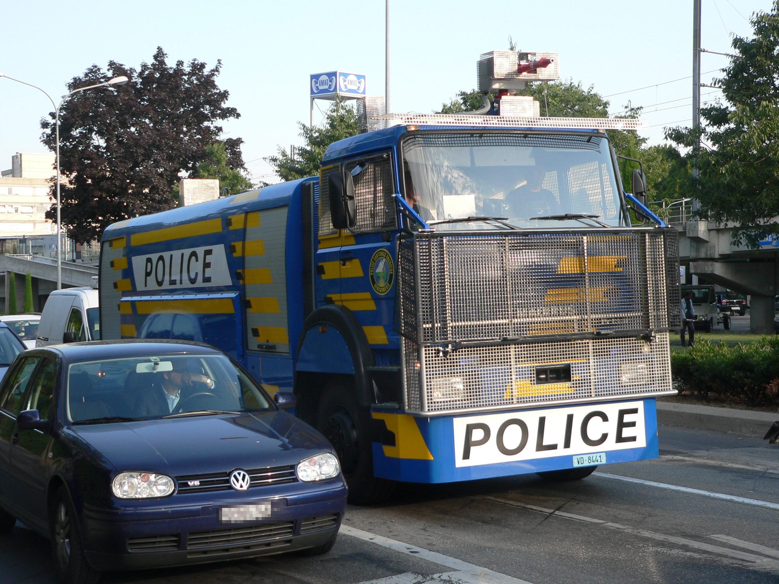 Iveco Magirus police truck (reg. VD 8441) in Switzerland.